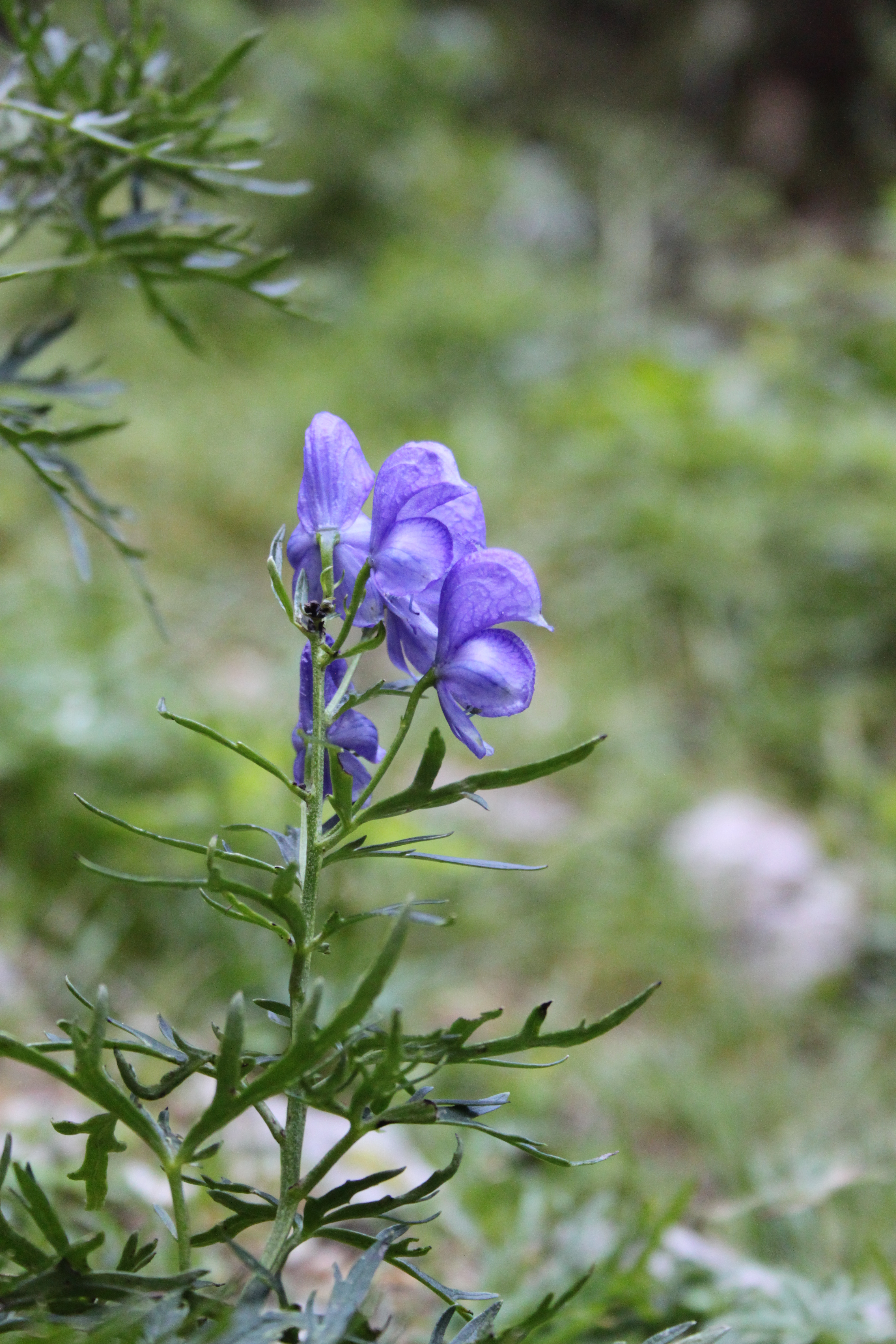 Aconitum angustifolium, Planina za Skalo meadow, endemic plant of Julian Alps.